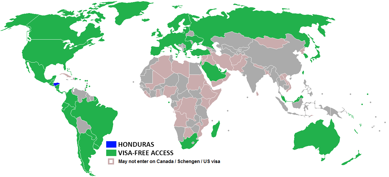 Visa policy of Honduras Honduras Visa-free access to Honduras May not enter on Canada/Schengen/US visa